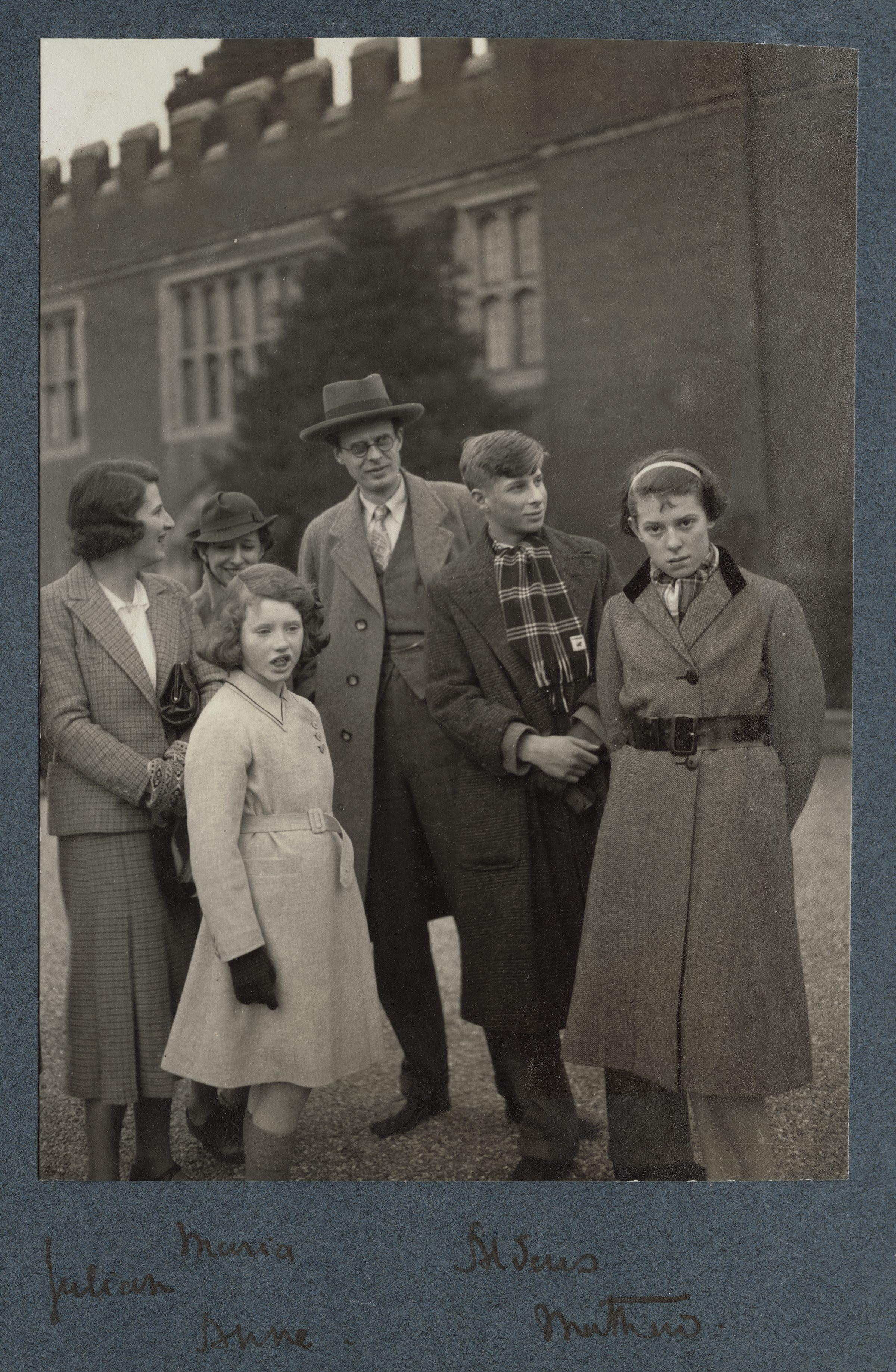 Visiting Hampton Court Palace, by Lady Ottoline Morrell (died 1938).